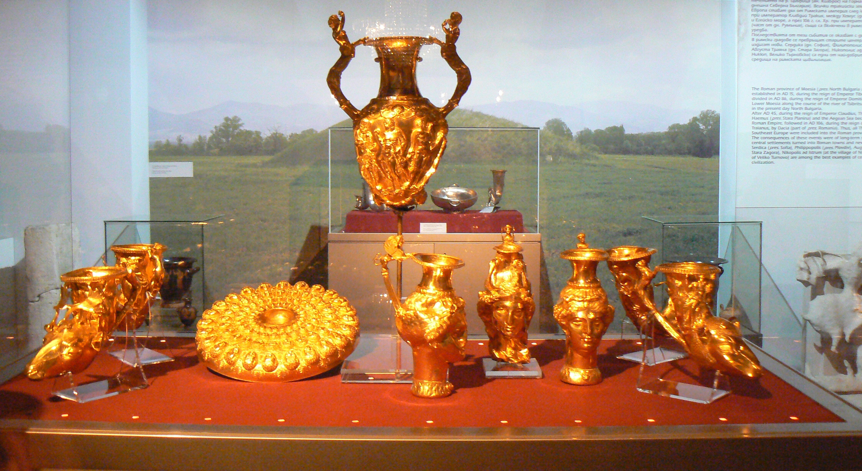 Panagyurishte Golden Treasure. Exhibits of the National History Museum of Bulgaria